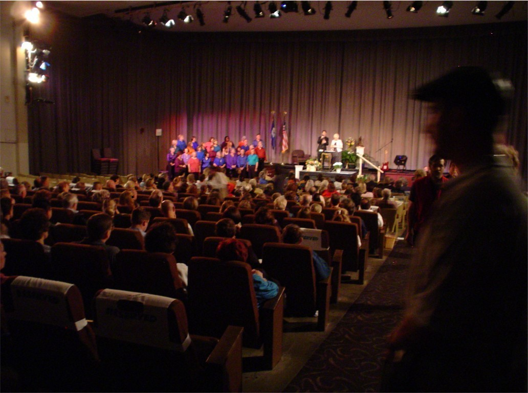 Last service for Living Enrichment Center, which was a megachurch in Oregon.